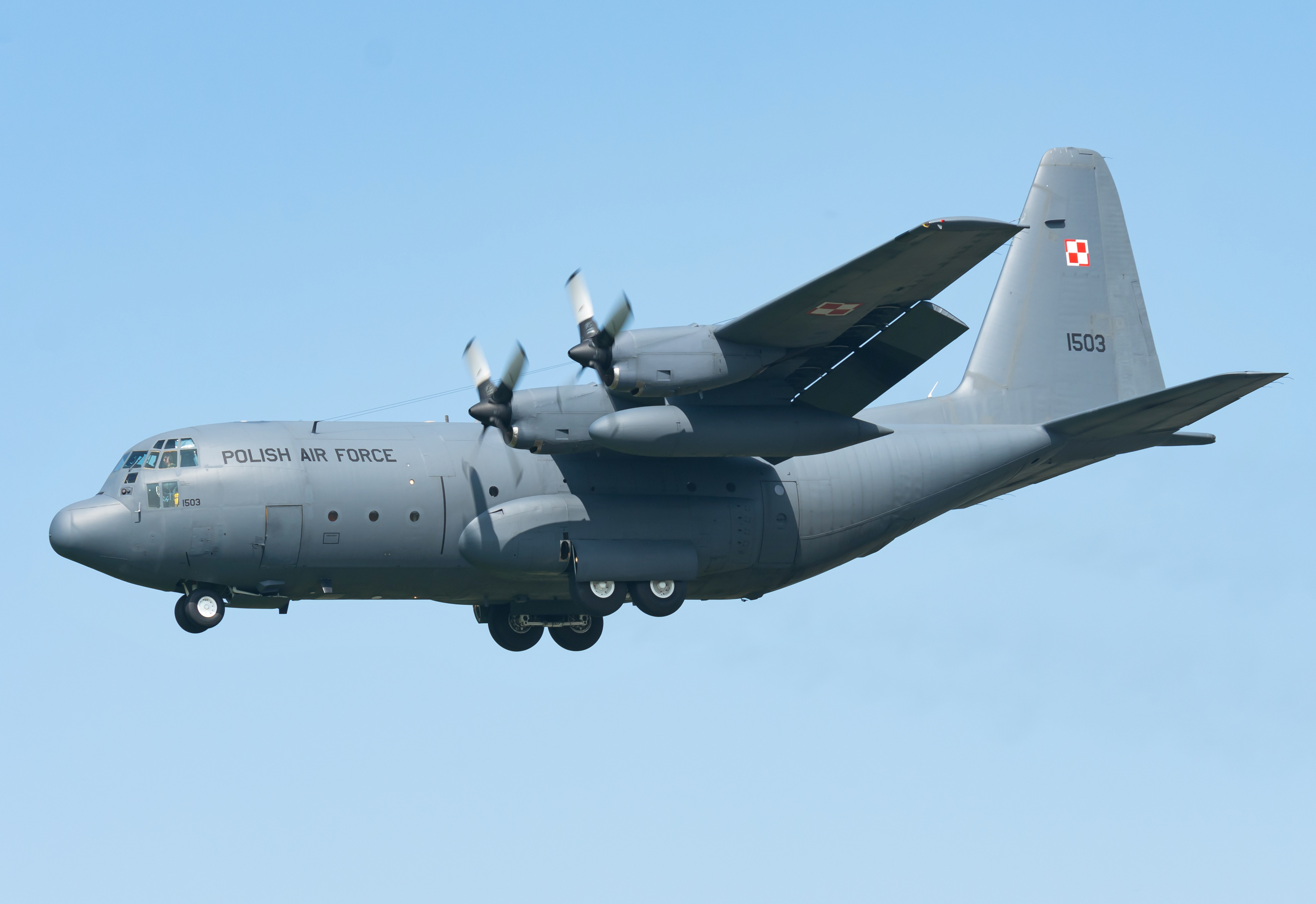 A Polish Air Force C-130